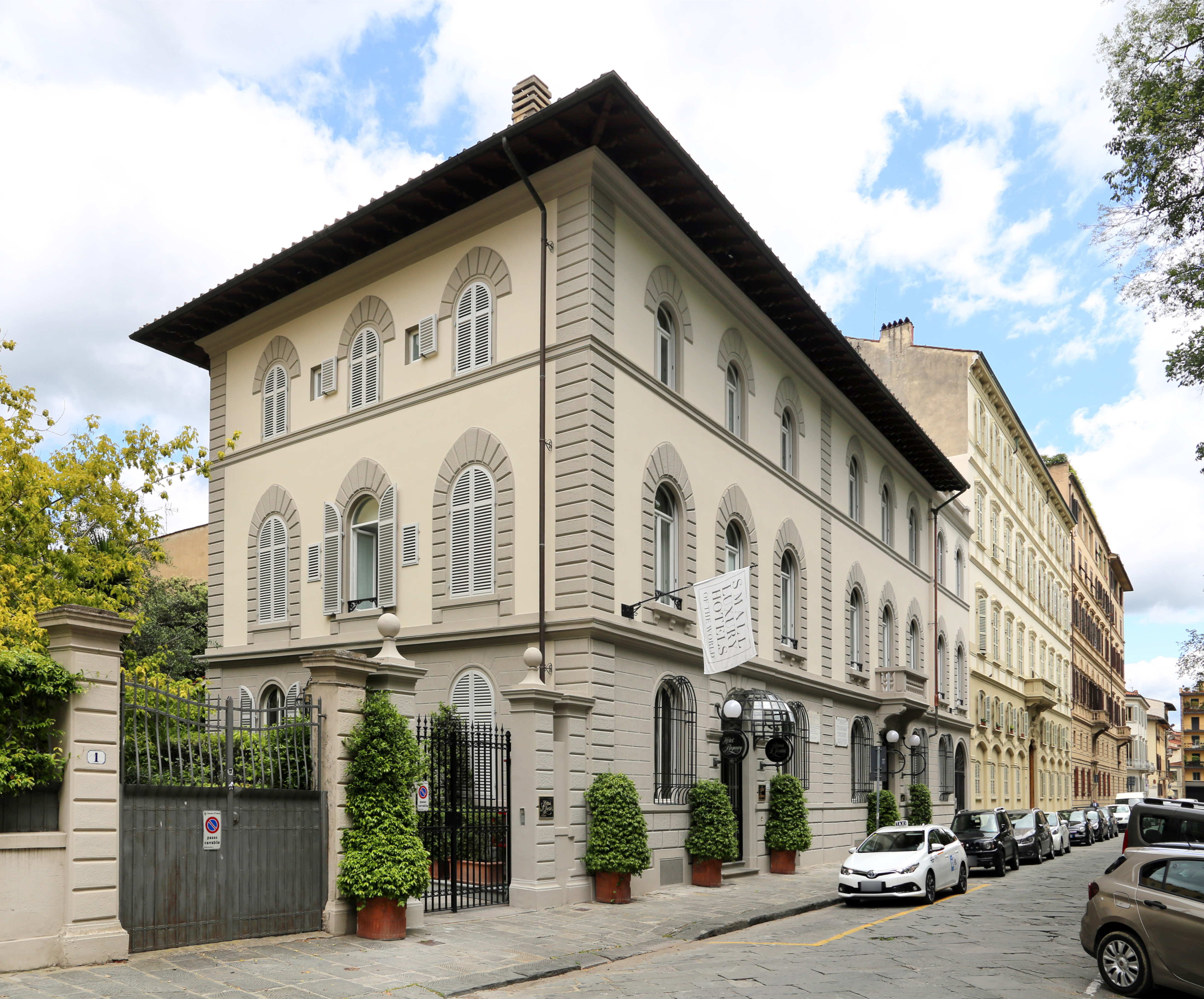 Villini Servadio